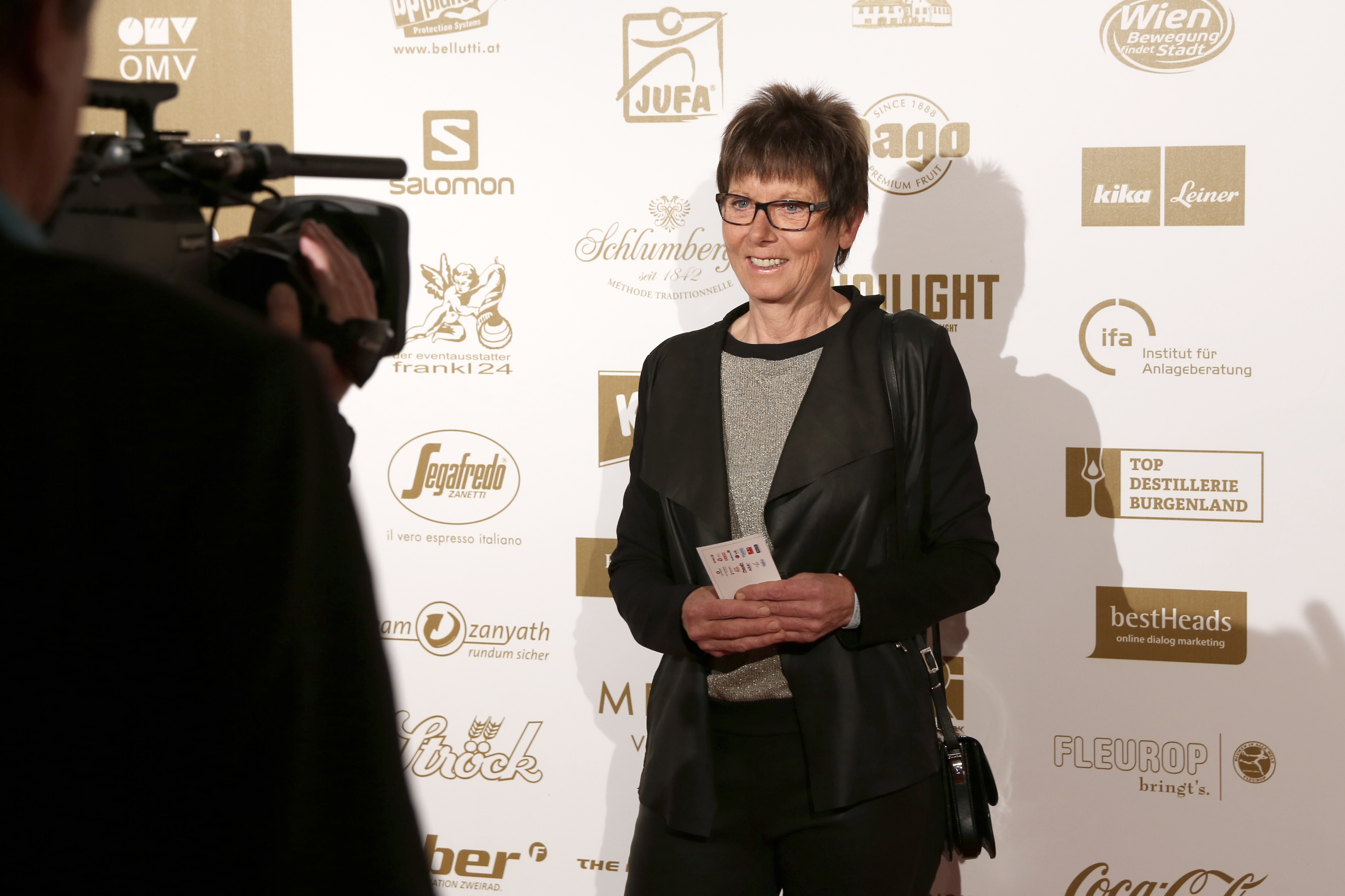 Annemarie Moser-Pröll on the red carpet at the award show for the Austrian Sportspersonalities of the Year 2014 (Austria Center Vienna).